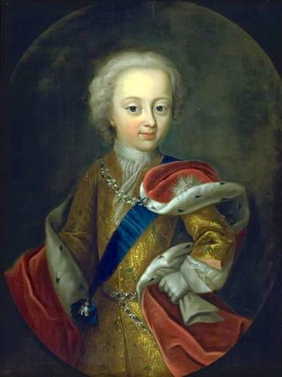 Frederick V of Denmark (1723-1766) as a child